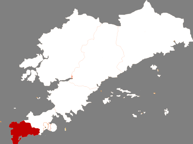 Location of Lushunkou district in Dalian City, China